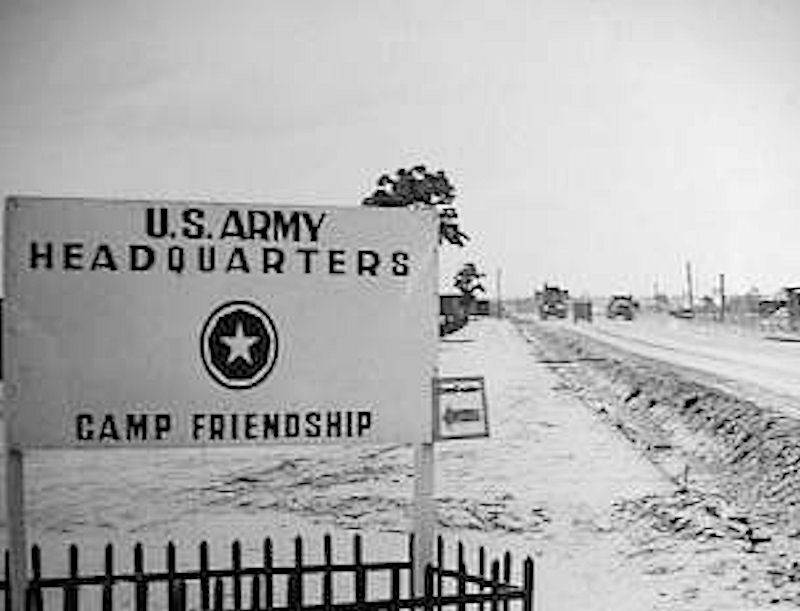 Camp Friendship - Main Entrance 1968